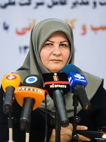 Marzieh Shahedaei director of the National Petrochemical Company (NPC) in a press conference.